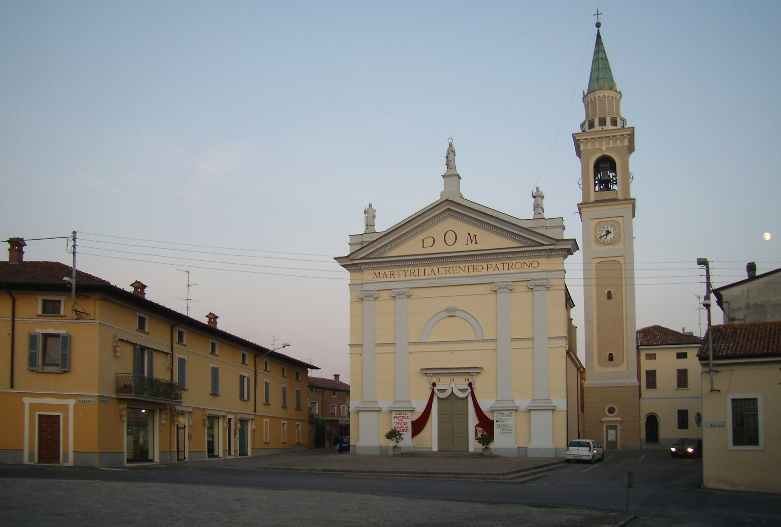 San Lorenzo Martire church in Genivolta (CR), Italy